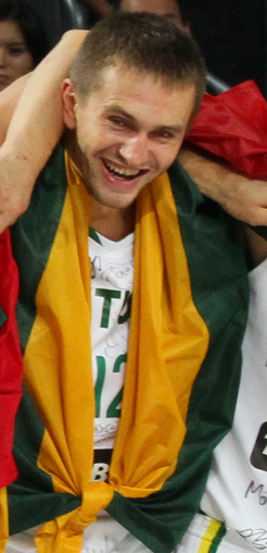 Tadas Klimavičius after winning bronze medal during 2010 FIBA World Championship.